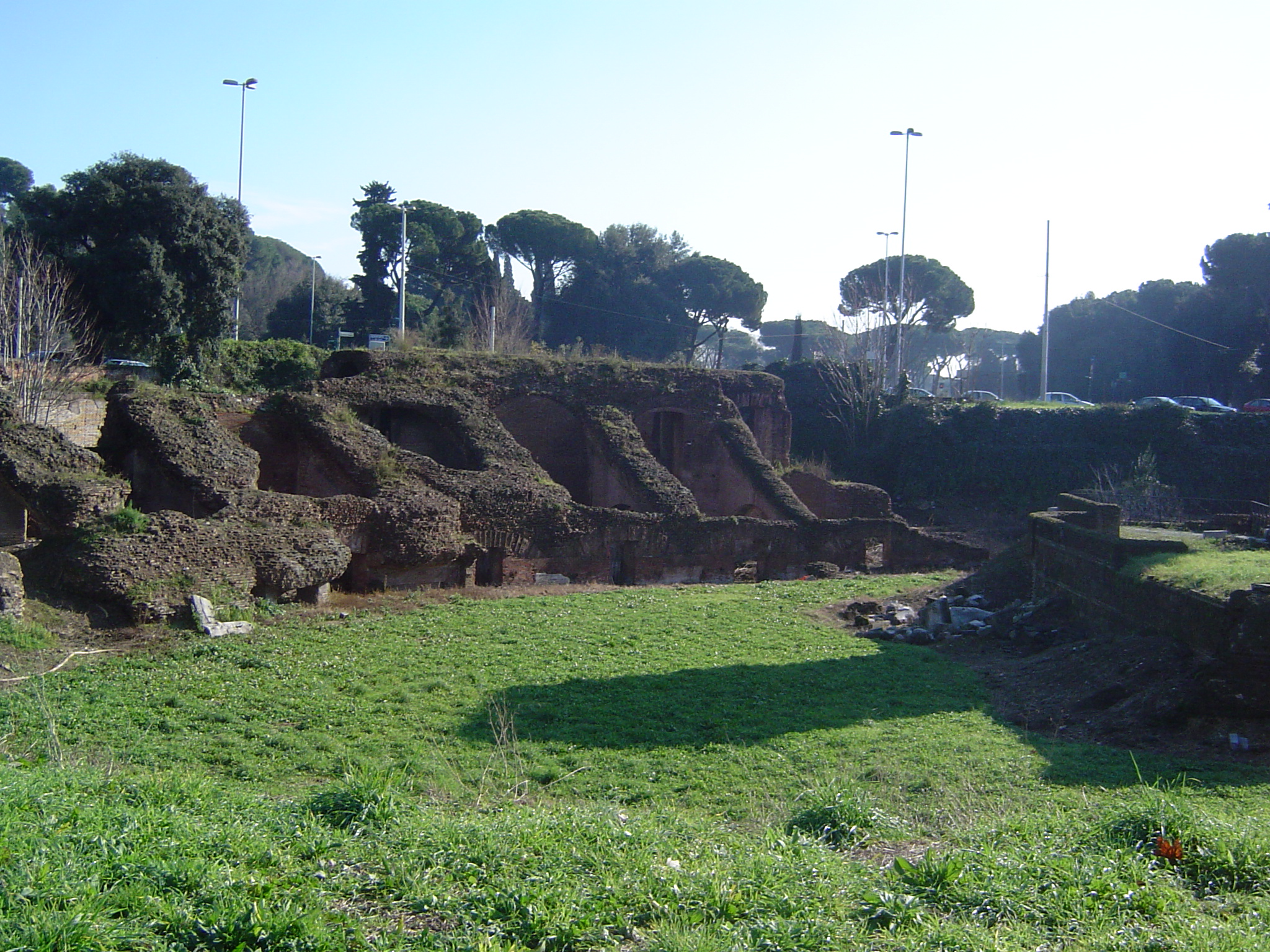 Circus Maximus, remains, Rome Italy Made by Joris van Rooden, the Netherlands on 30-12-2005